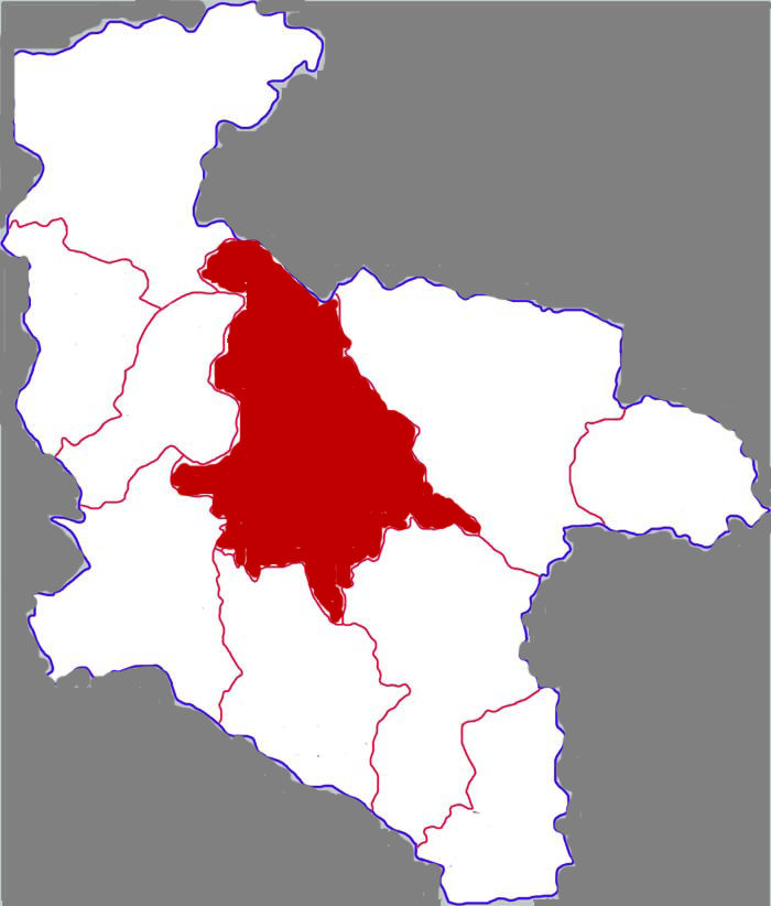 Location of Hanbin district in Ankang city, China